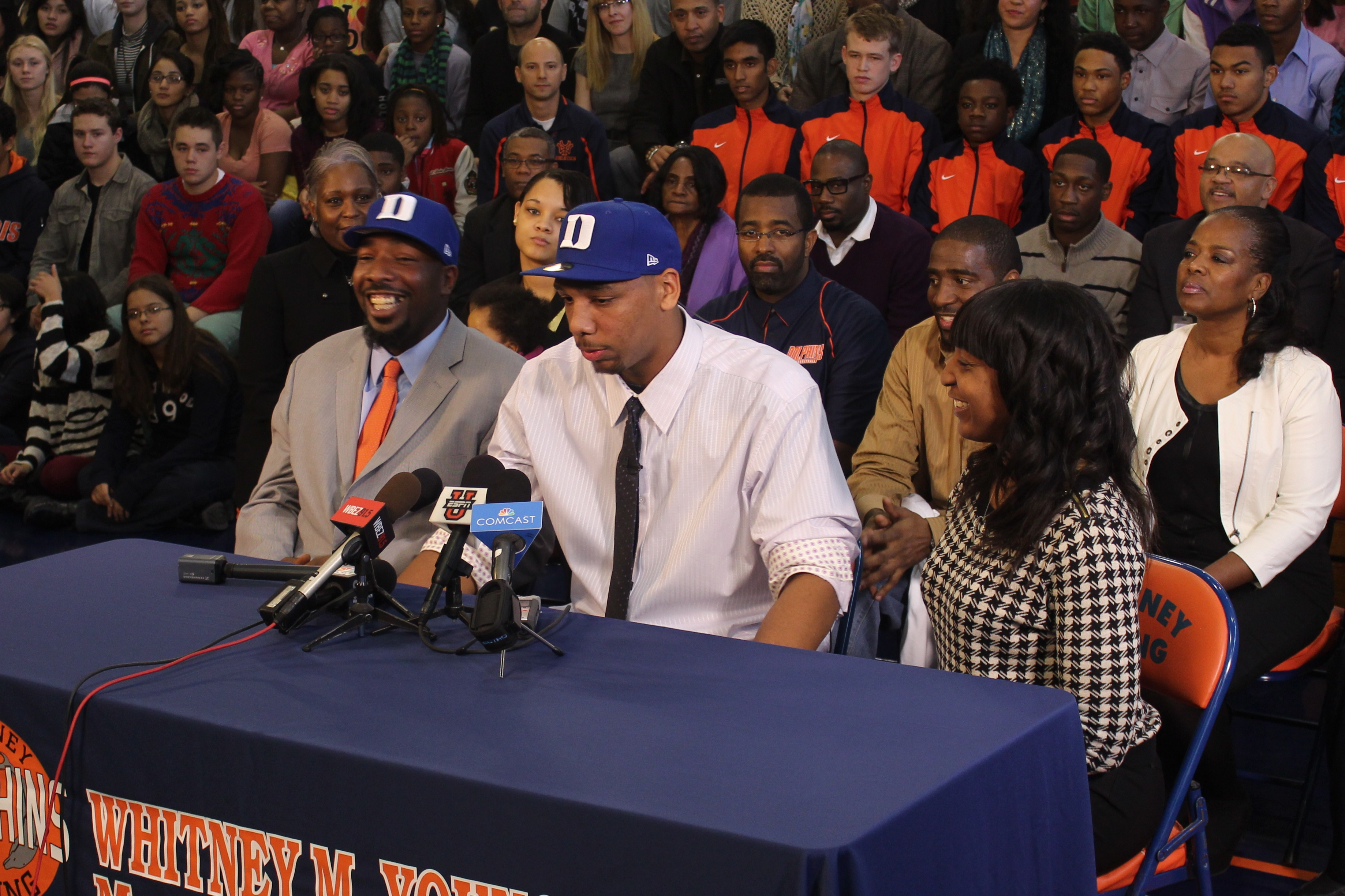 Jahlil Okafor with father Chukwudi Okafor and aunt Chinyere Okafor-Conley during verbal commitment to Duke University